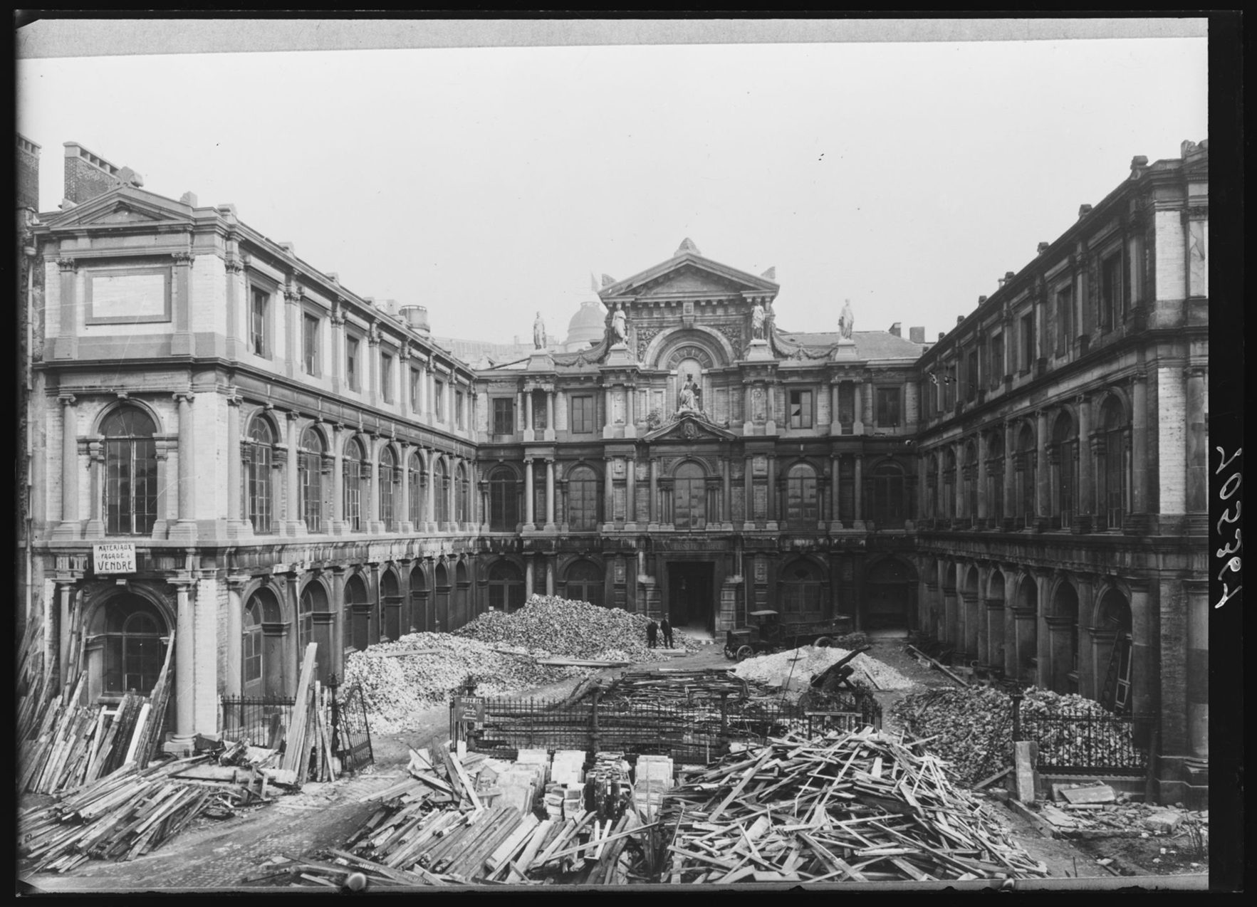 Renaissance Palace of Antoine Perrenot de Granvelle (Brussels), built in 1550-55 and demolished in 1931